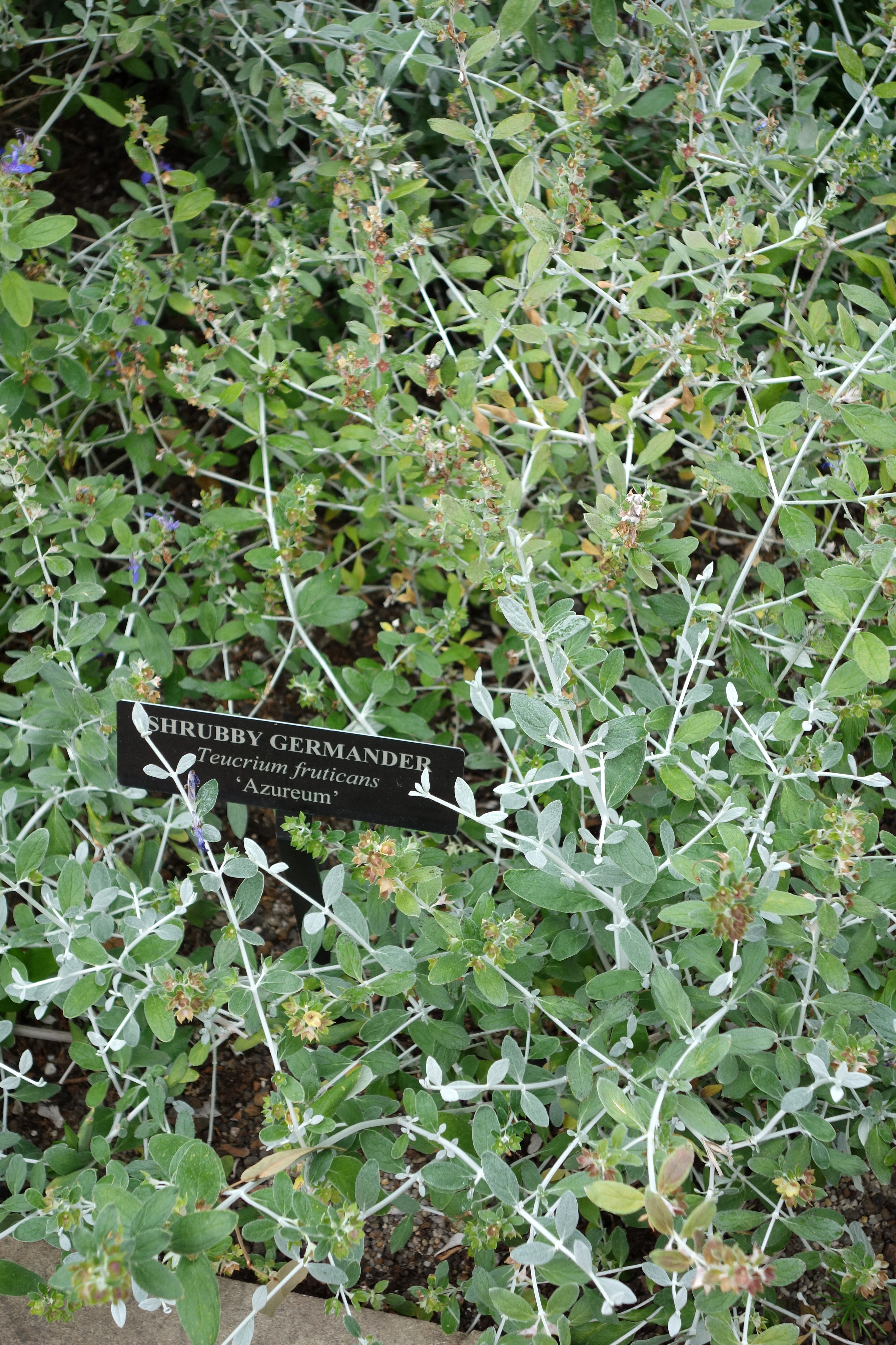 Botanical specimen in Longwood Gardens, 1001 Longwood Rd, Kennett Square, Pennsylvania, USA.